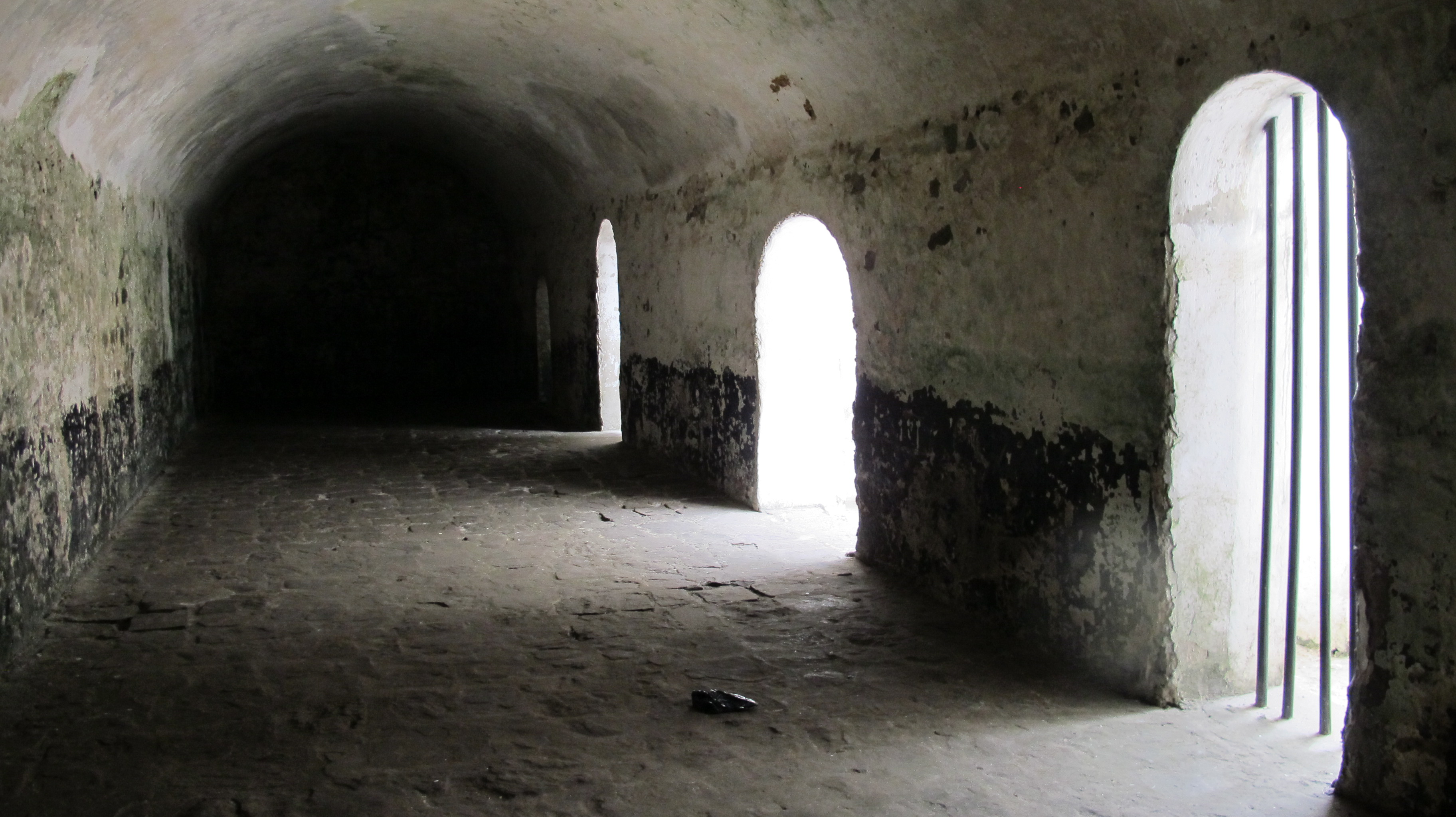 Ghana, Elmina Castle, Slave holding cell for 200 slaves